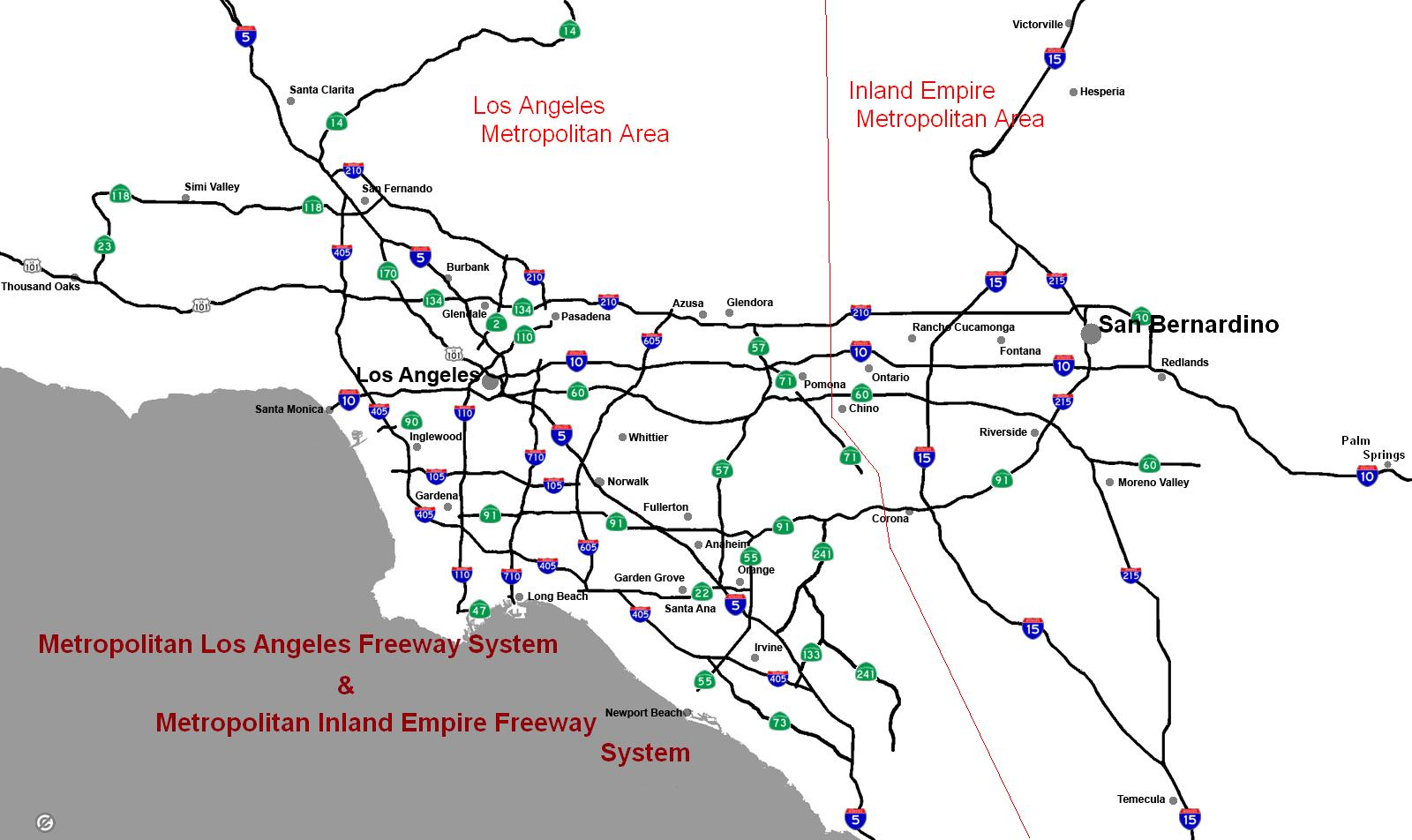 Showing Metro LA and Metro IE's freeway system